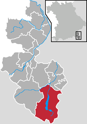 Locator maps of municipalities in Bavaria - District Berchtesgadener Land